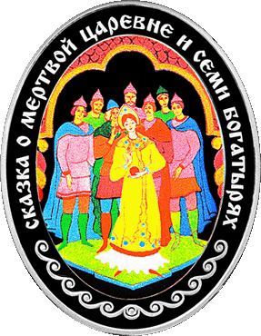 Belarus and the global community. Commemorative Coin "Tale of the Dead Princess and Seven Knights"